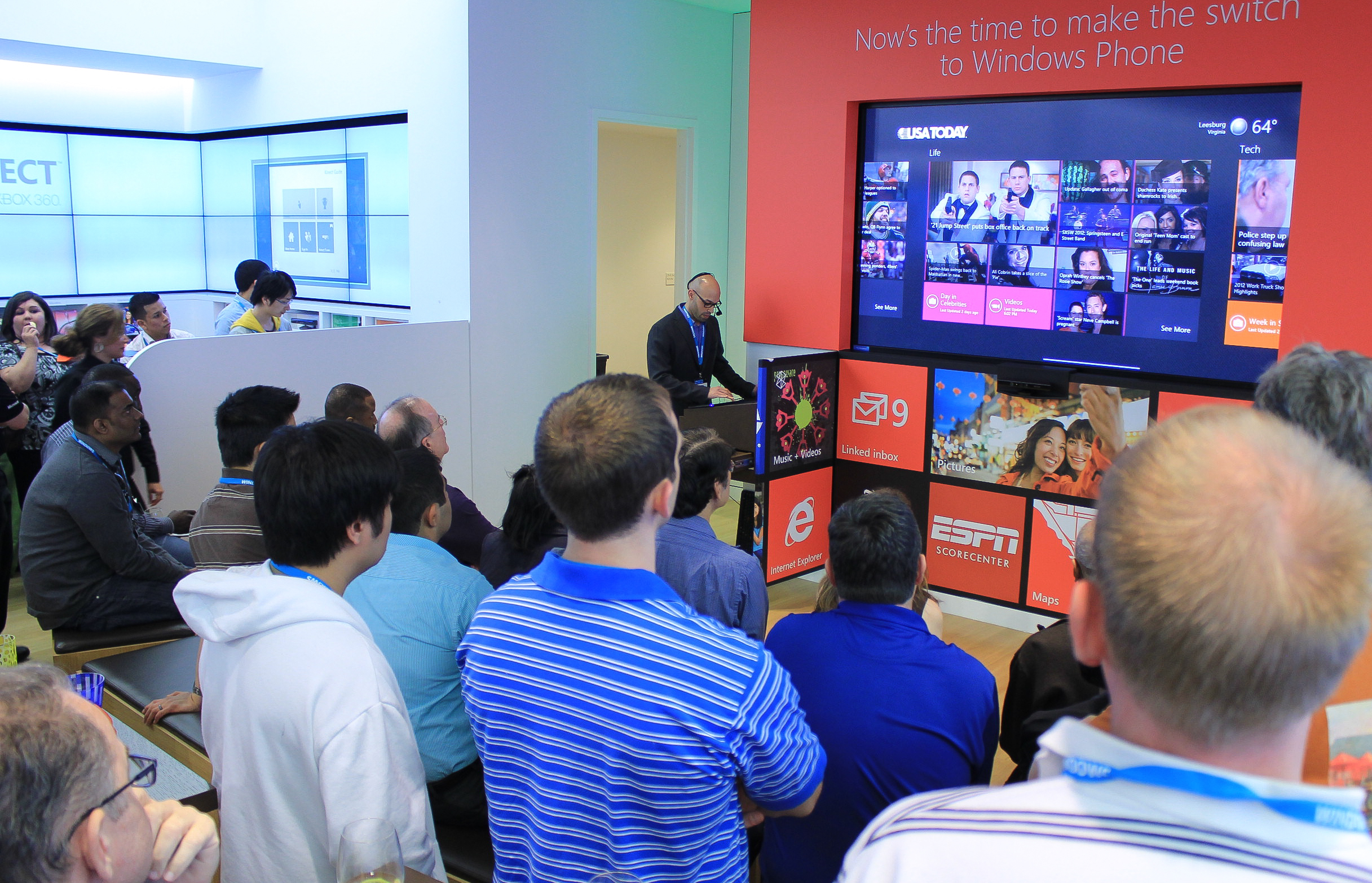 Microsoft hosted an invite only event for developer influencers to see first hand Windows 8 Consumer Preview and discuss developing Metro Style Apps